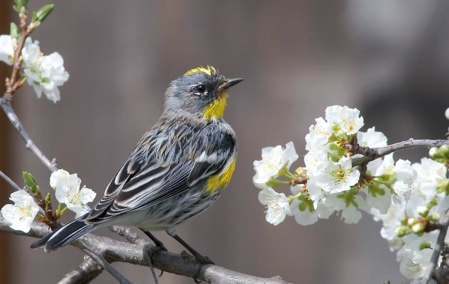 Audubon's Warbler Setophaga auduboni, 2007, Cupertino, CA (male breeding)